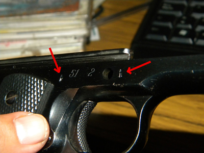 Refurbished Model 1927 Sistema Colt produced by DGFM. Red arrows indicate characteristic embossments for this model.